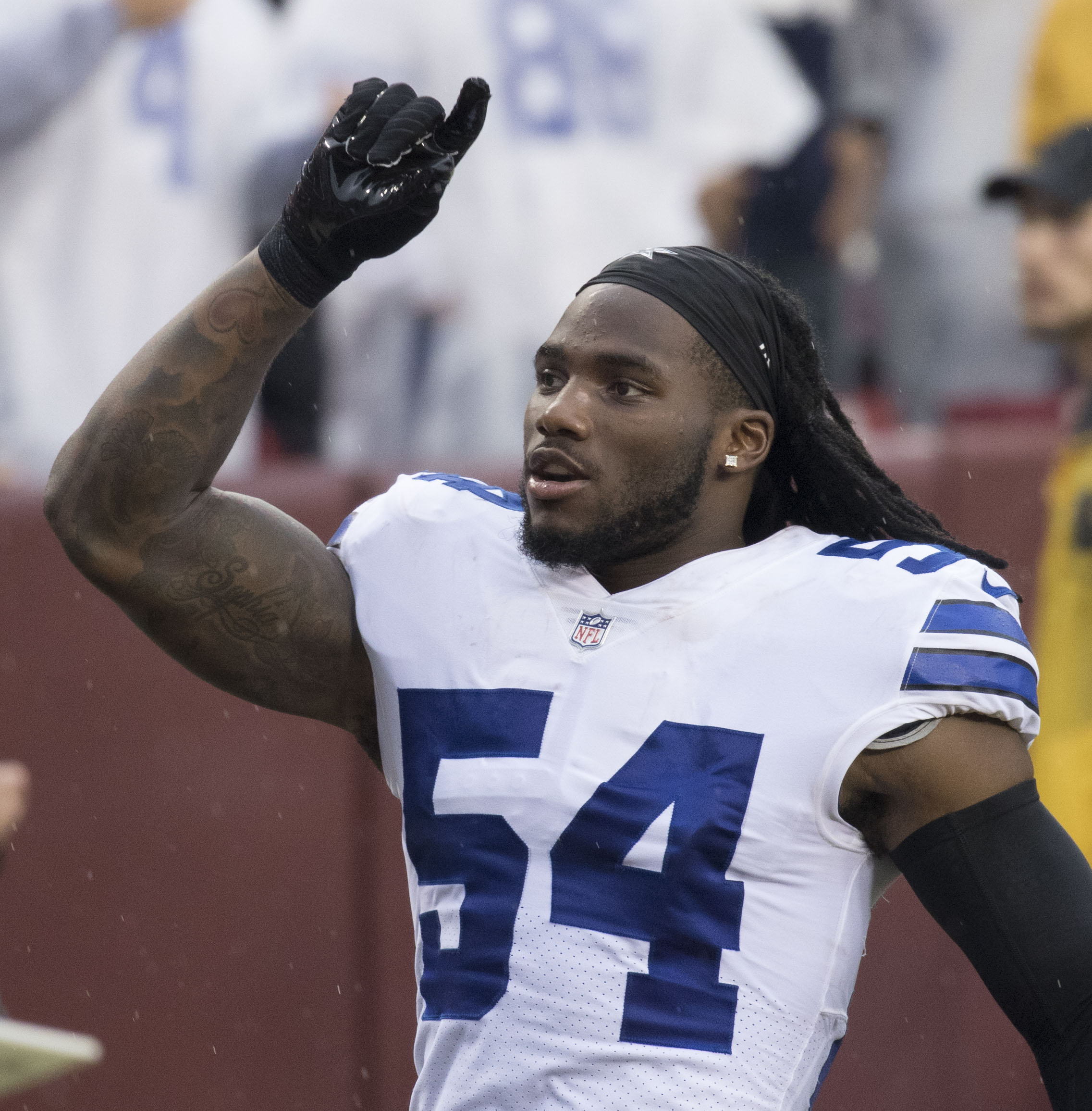 Cowboys at Redskins 10/29/17